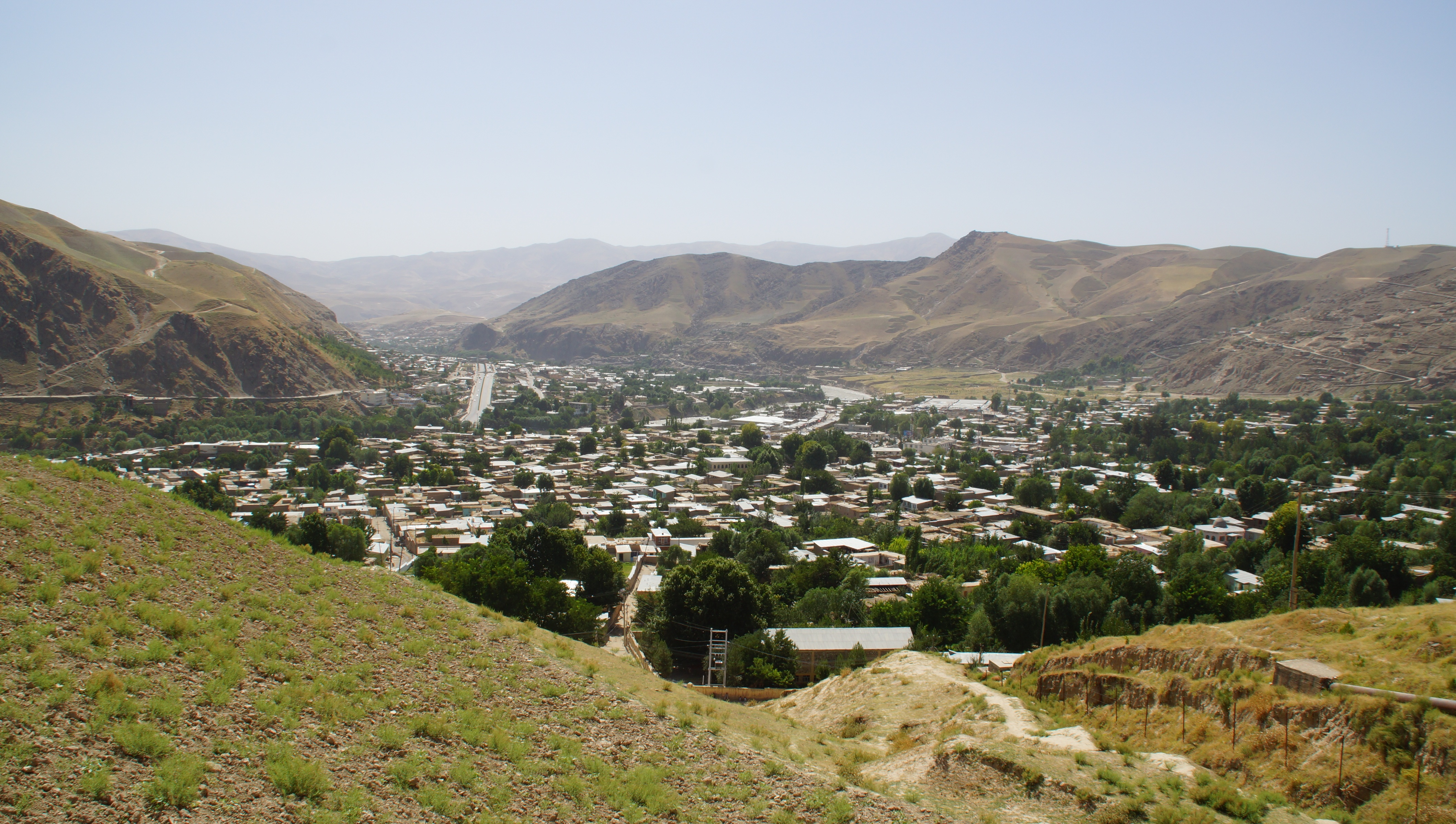 Fayzabad in Badakhshan Province of Afghanistan.